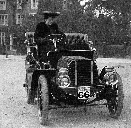 Miss Dorothy Levitt driving S.F.Edge's 12 h.p. Gladiator car which she drove in a series of reliability trials in 1903.jpg. Original Photographer unknown. Image was first published over 100 years ago, This is a low resolution promotional copy, watermarked by ILN Picture Library